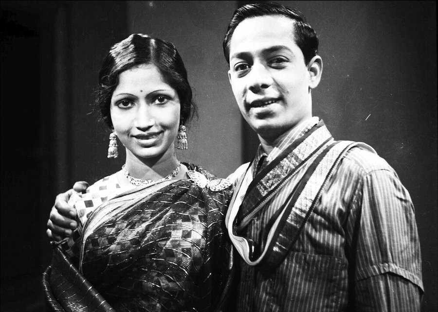 This is a screen shot from 1941 film Sabapathy produced by AVM studios. It shows R. Padma and T. R. Ramachandran.